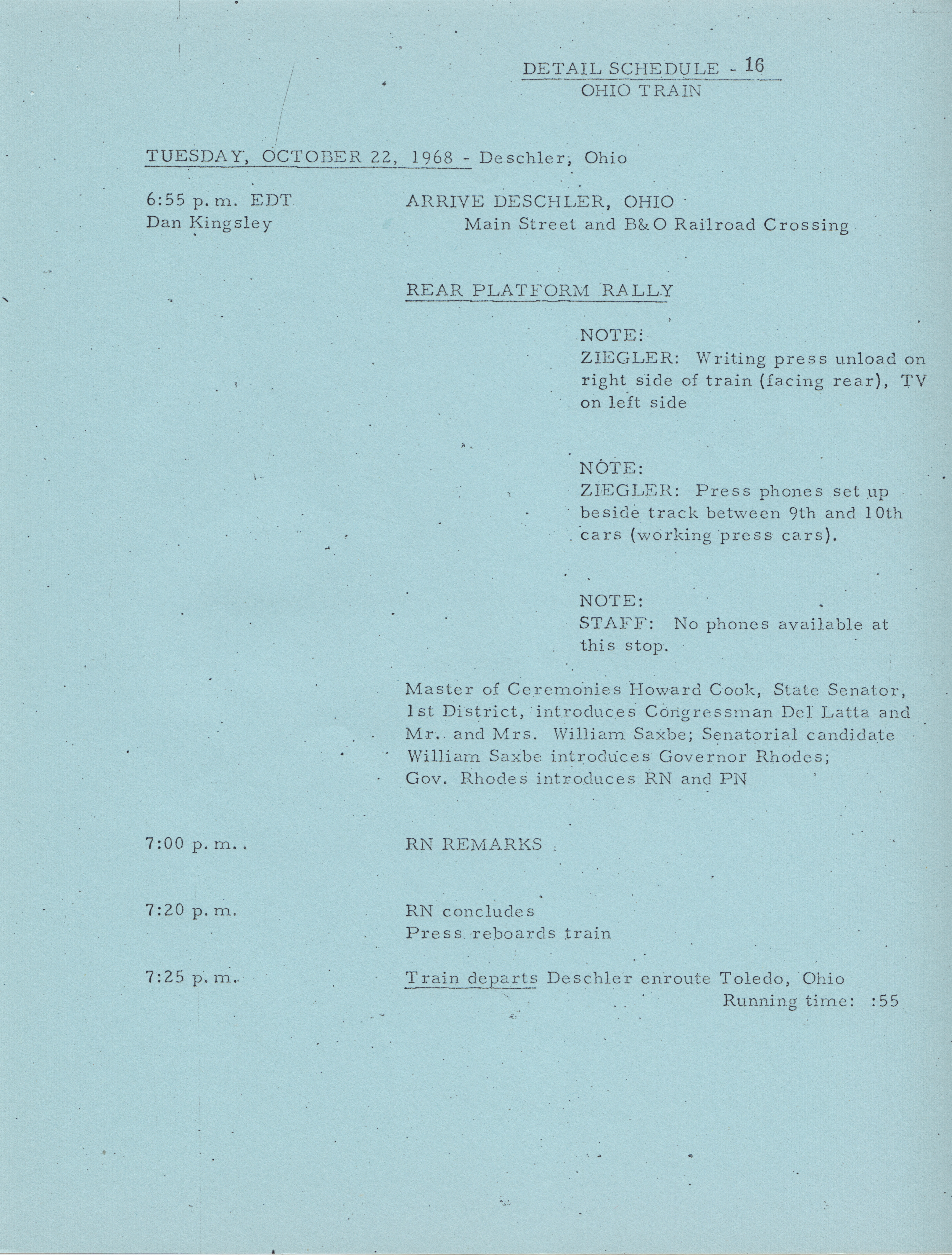 Page from Nixon schedule for Deshler stop. This was published by being distributed to press members and others needing to know the candidate's schedule, without copyright notice